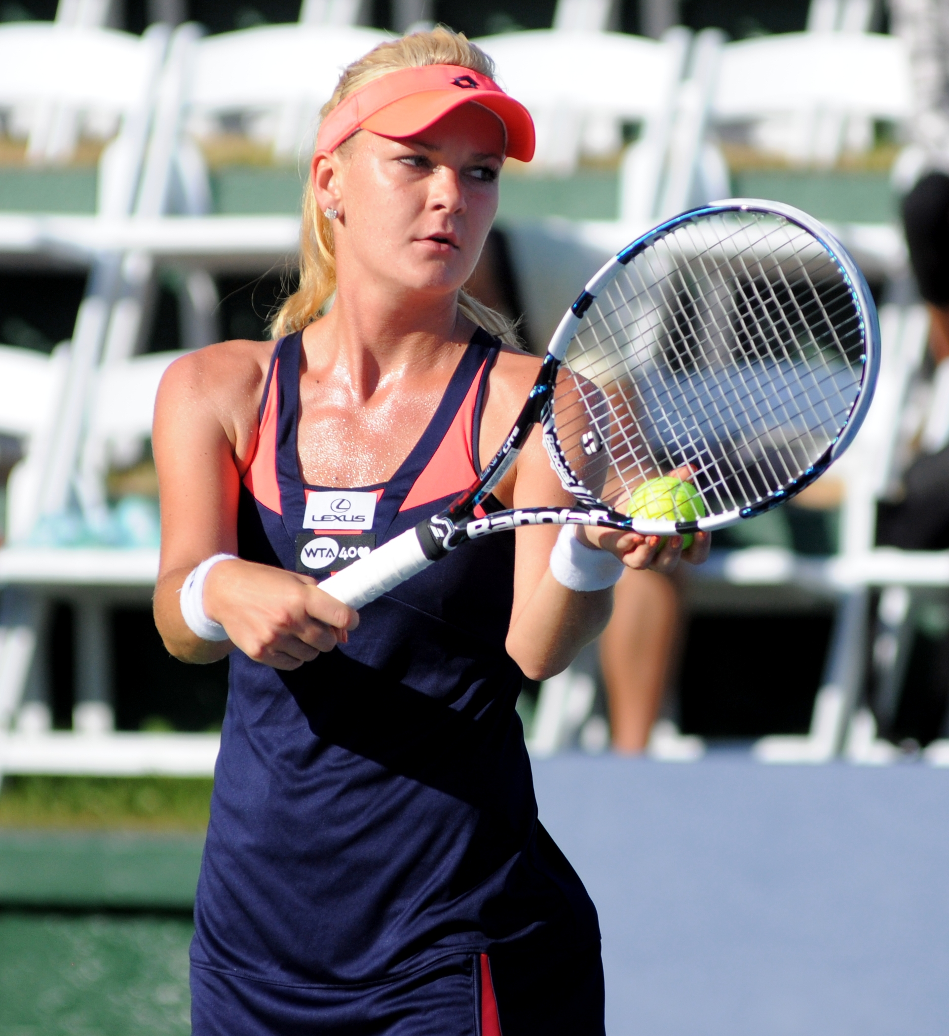 2013 Southern California Open - Quarterfinals